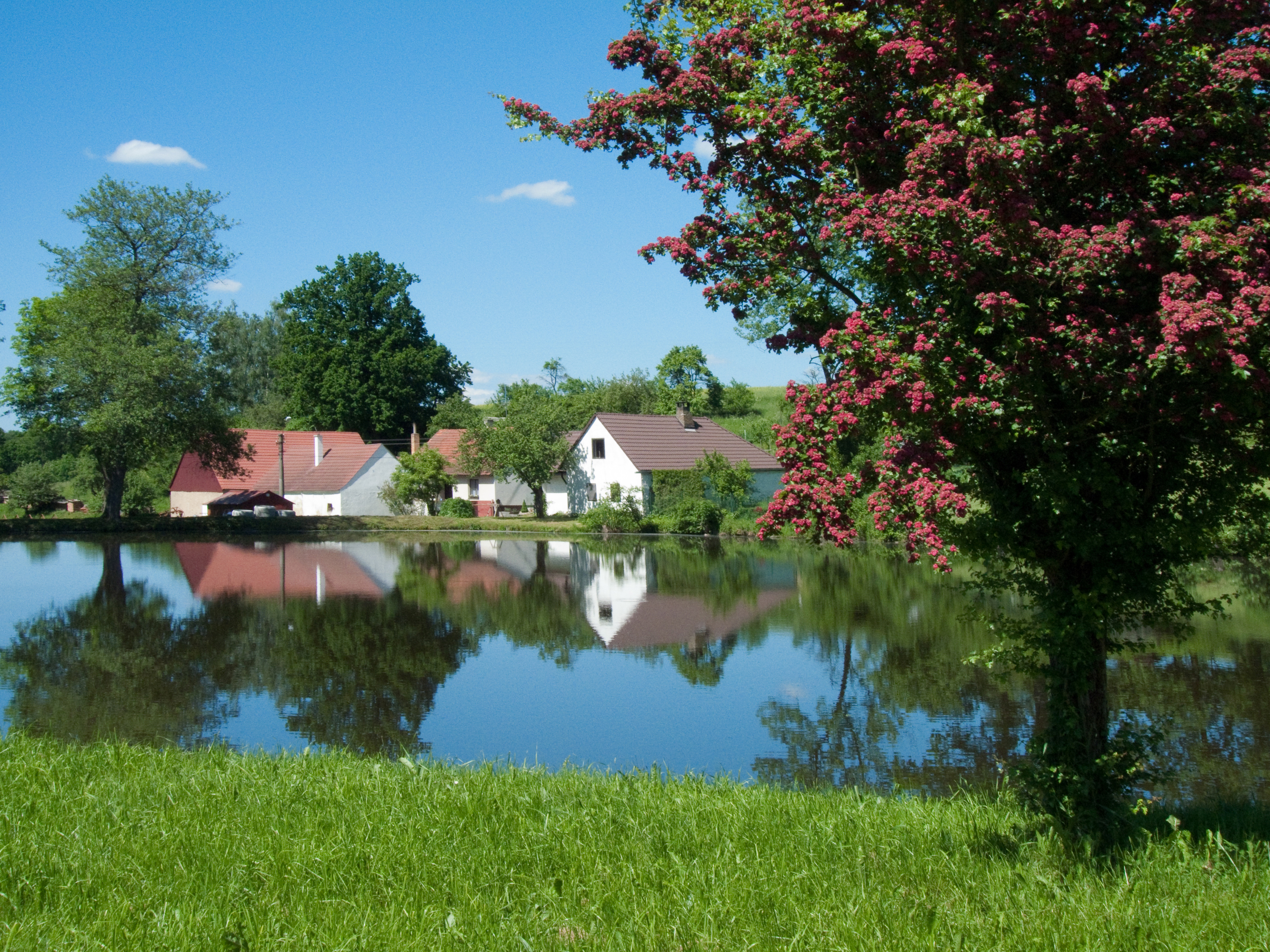 Zájezek pond in the village of Třebějice, Tábor district, Czech Republic